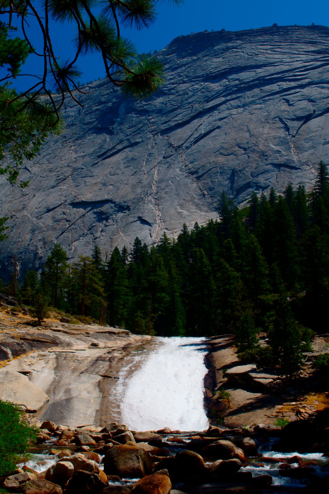 Cascade at the head of Little Yosemite Valley below Bunnell Point. In Yosemite National Park.